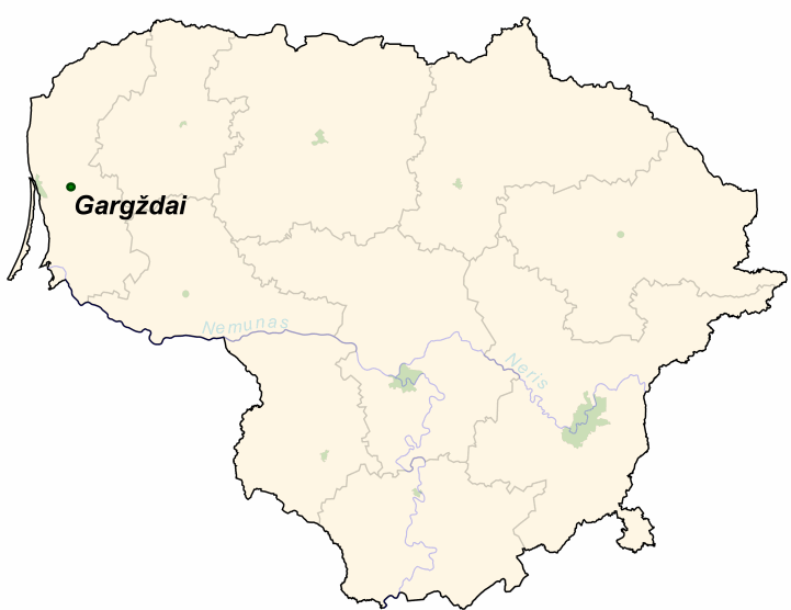 Gargždai on the map of Lithuania